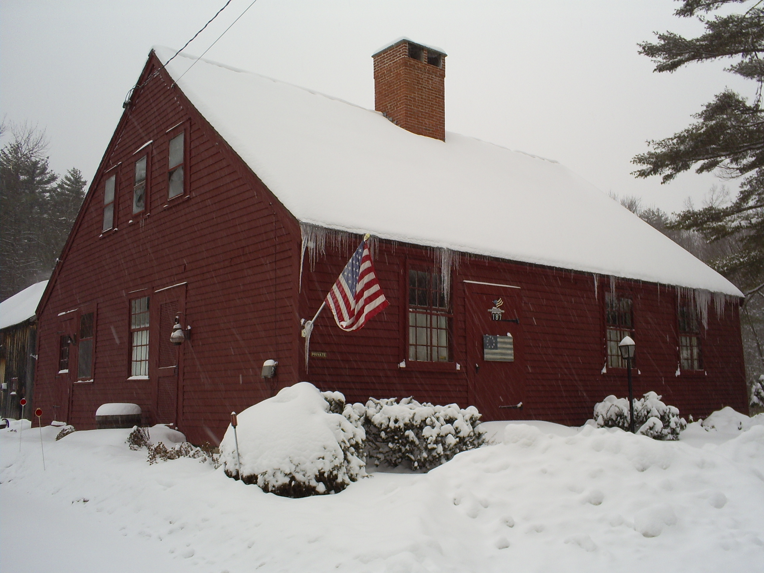 Photo by Craig Michaud. This is in Mason, New Hampshire.